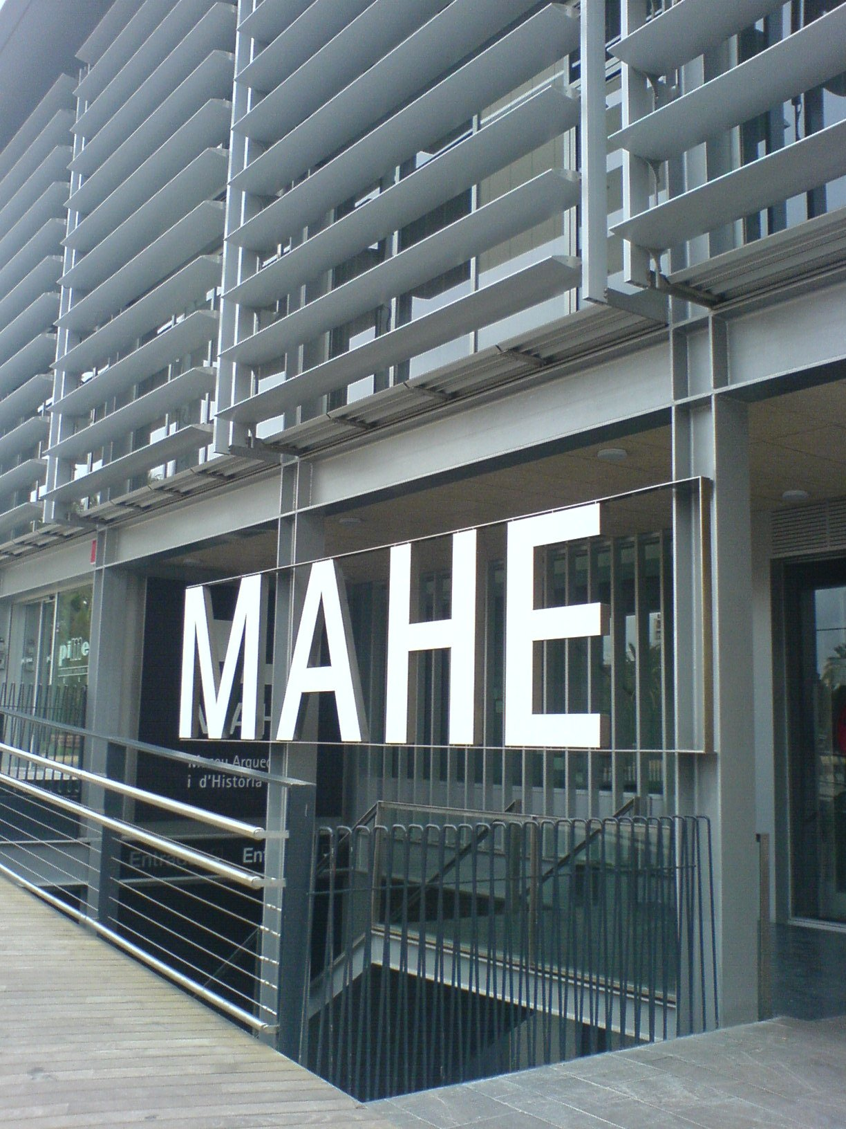 Entrada al Museo Arqueológico y de Historia de Elche. Museo Arqueológico y de Historia de Elche Native nameMuseu Arqueològic i d'Història d'ElxParent institutioncultural heritage in AlicanteLocationElche, provincia de Alicante, (Spain)Coordinates38° 16′ 05.4″ N, 0° 41′ 51.5″ W Established2006Web page[1]Authority control : Q1954226 VIAF: 123050878 LCCN: n00027245 BIC: RI-51-0001304 GND: 5170472-9 SUDOC: 033638748 WorldCat institution QS:P195,Q1954226